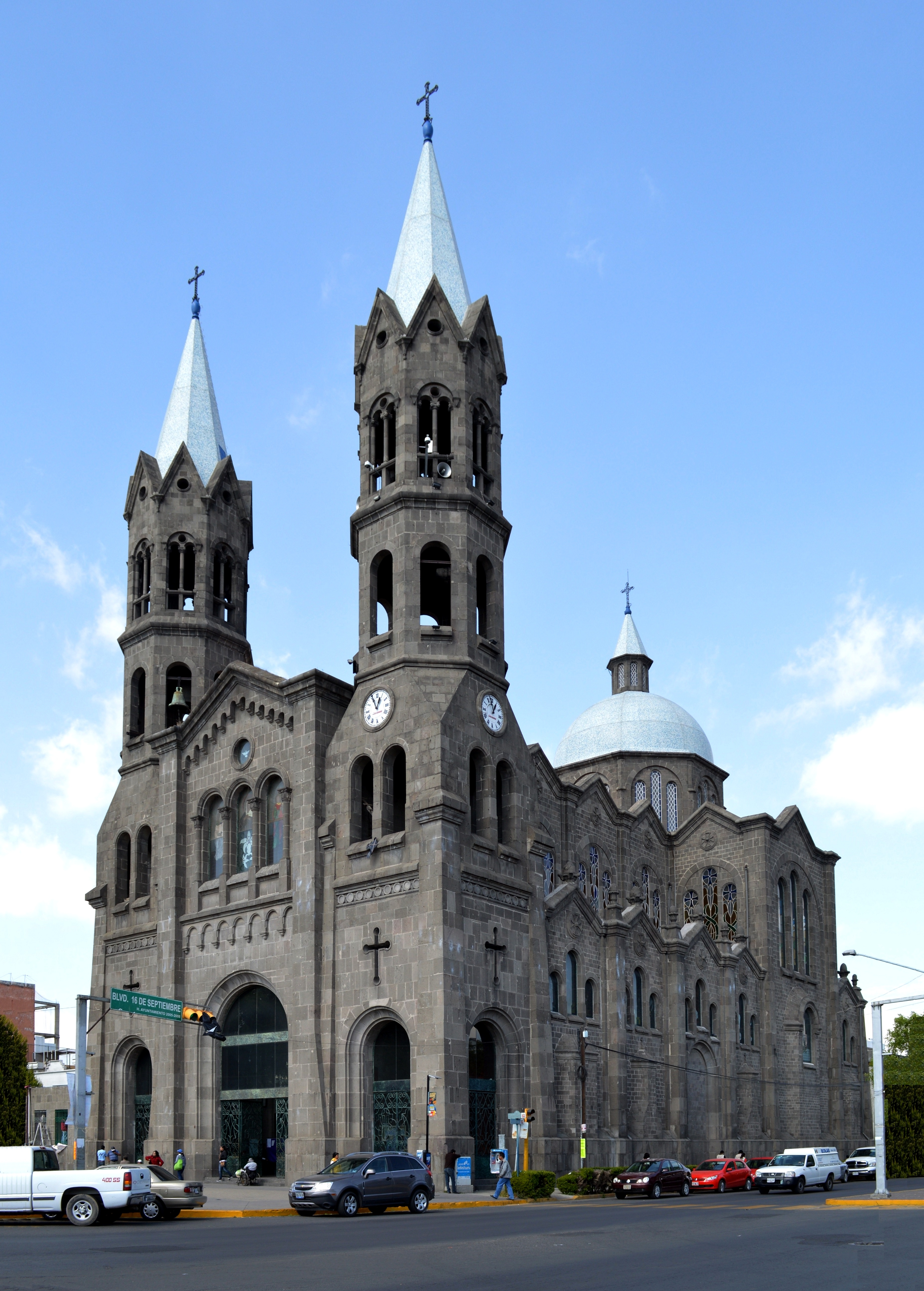 Basílica de Nuestra Señora de las Misericordias in Apizaco, Tlaxcala, Mexico